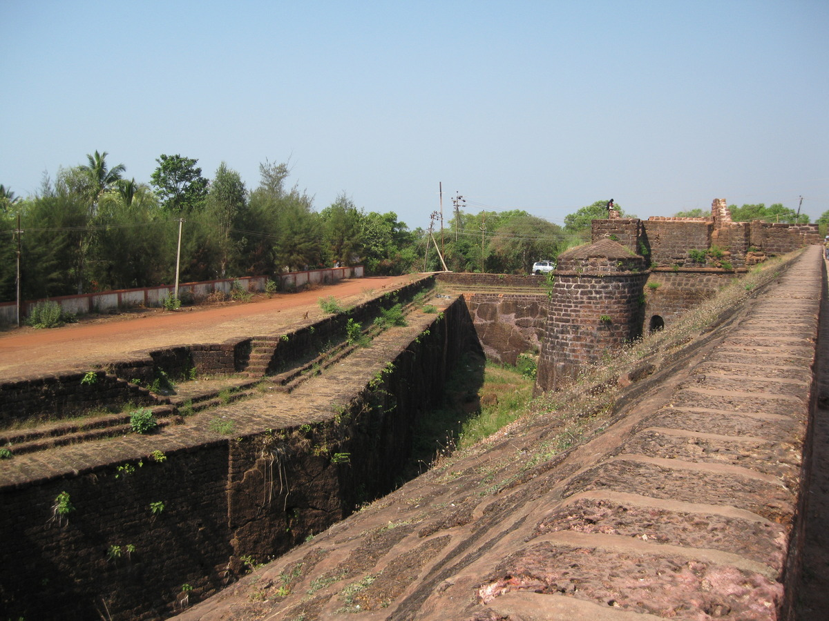 Two levels of the Fort walls and the massive ditch in between are visible here. - wall lower